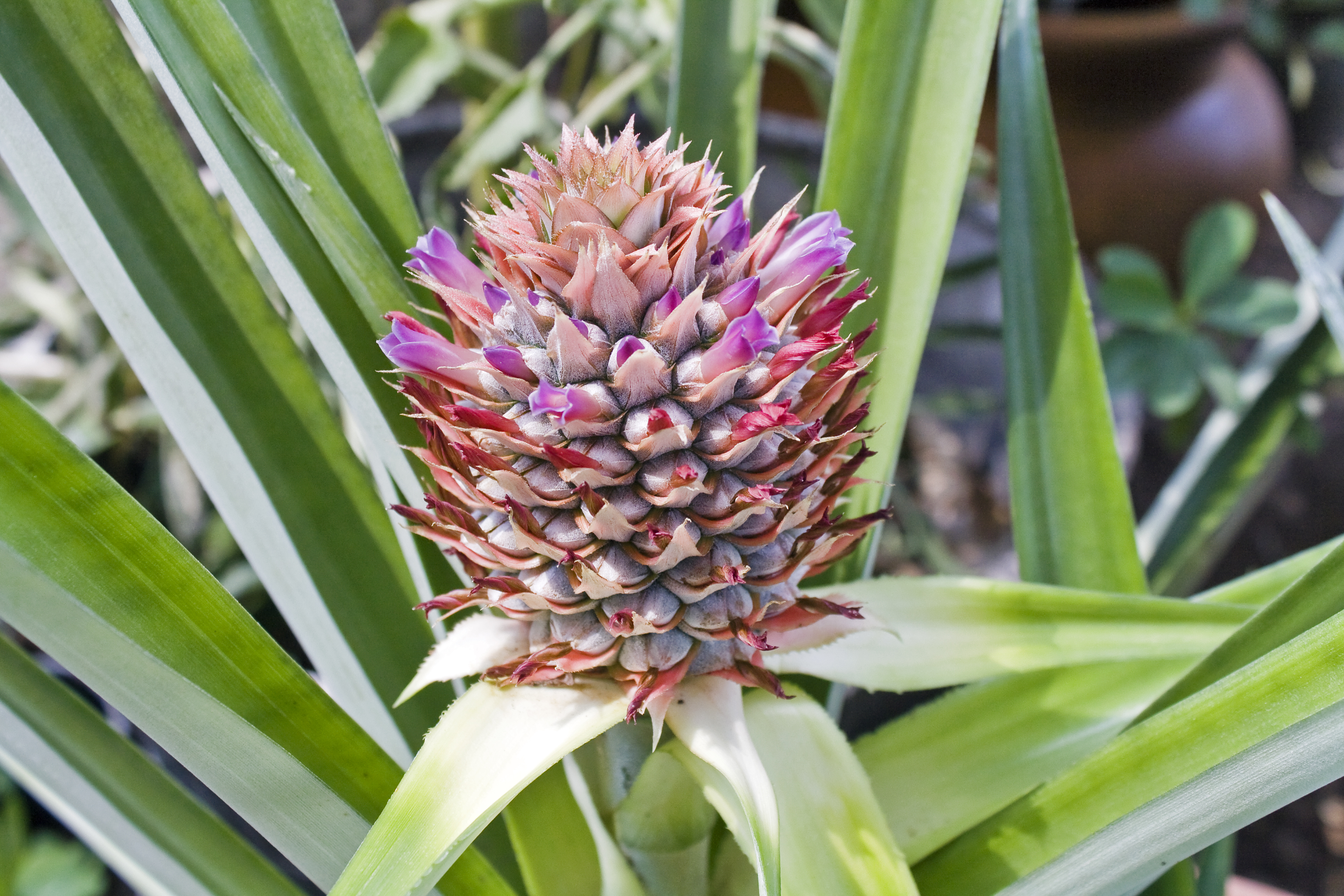 A flowering pineapple on a tree that is about four years old. This is the third fruit it has produced since I planted it.